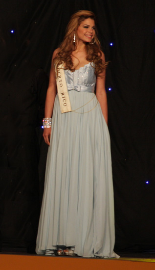 Miss Puerto Rico 2008 Ivonne Orsini during Miss World 08